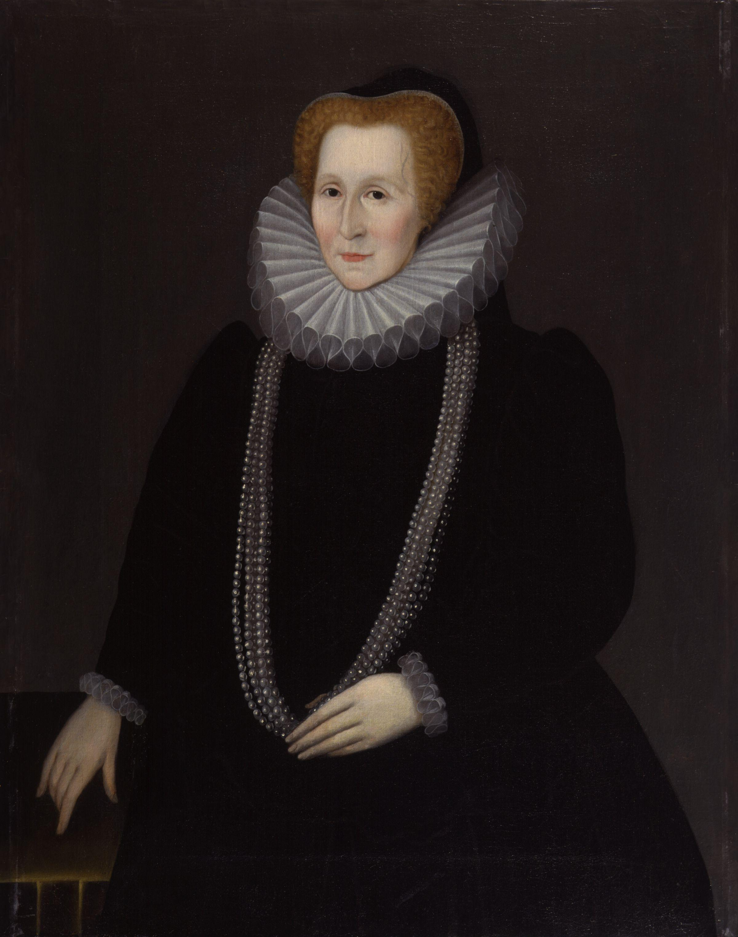 Elizabeth Talbot, Countess of Shrewsbury, by unknown artist. Portrait of Elizabeth Talbot, Countess of Shrewsbury, known as Bess of Hardwick. All images in this batch have an unknown author, but there is strong evidence it was first published before 1923 (based mainly on the NPG's estimated date of the work).